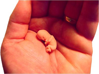 Life size model of fetus at 8 weeks after conception, in hand of adult. Detailed coloring is not shown. This illustrates that fetus has all limbs formed at this stage, and shows size in comparison with that of adult.